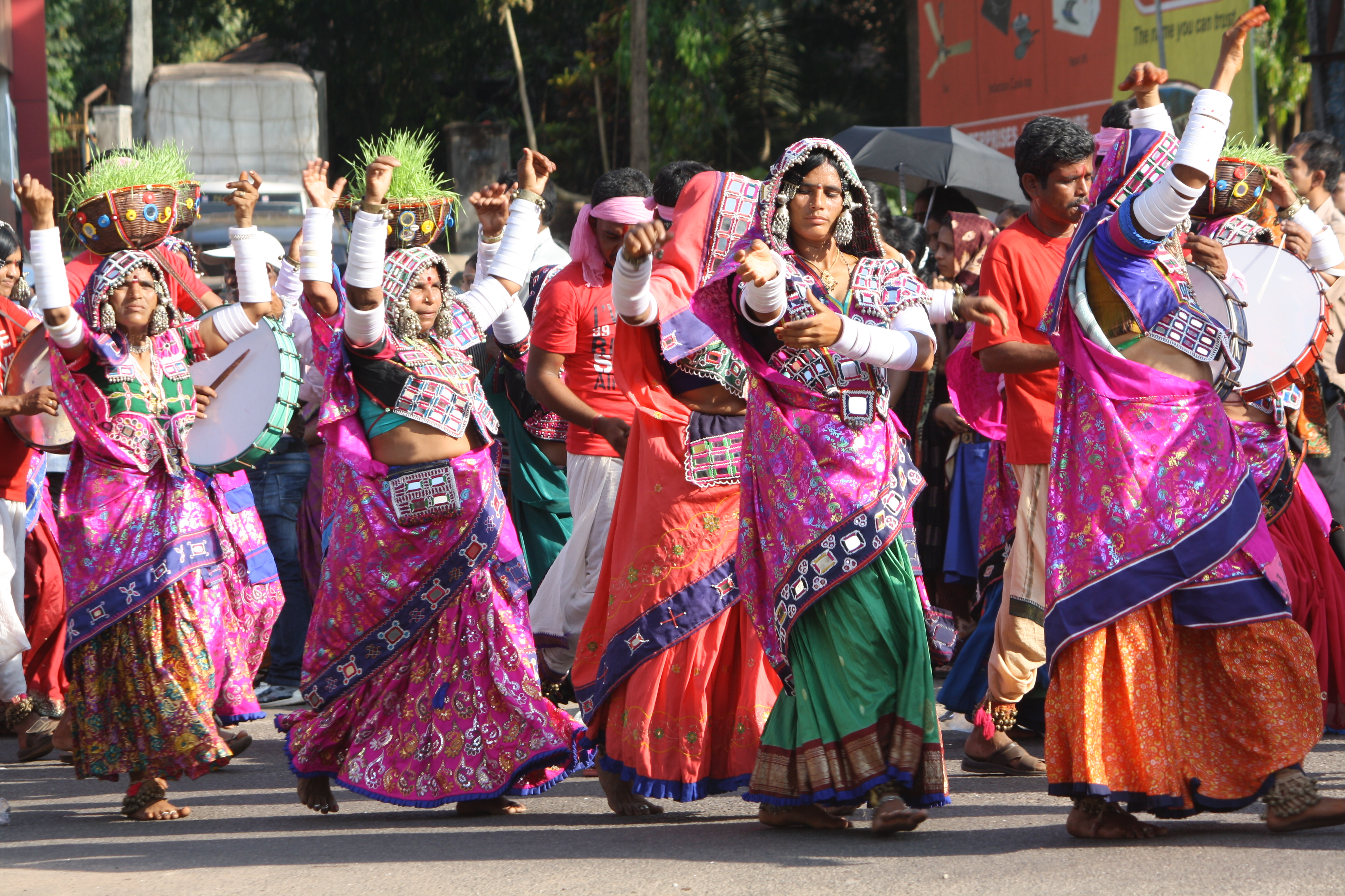 Lambaani Kunitha, a kind of folk performance from Karnataka, India ಕನ್ನಡ: ಕರ್ನಾಟಕದ ಜಾನಪದ ಕಲೆ ಲಂಬಾಣಿ ಕುಣಿತ